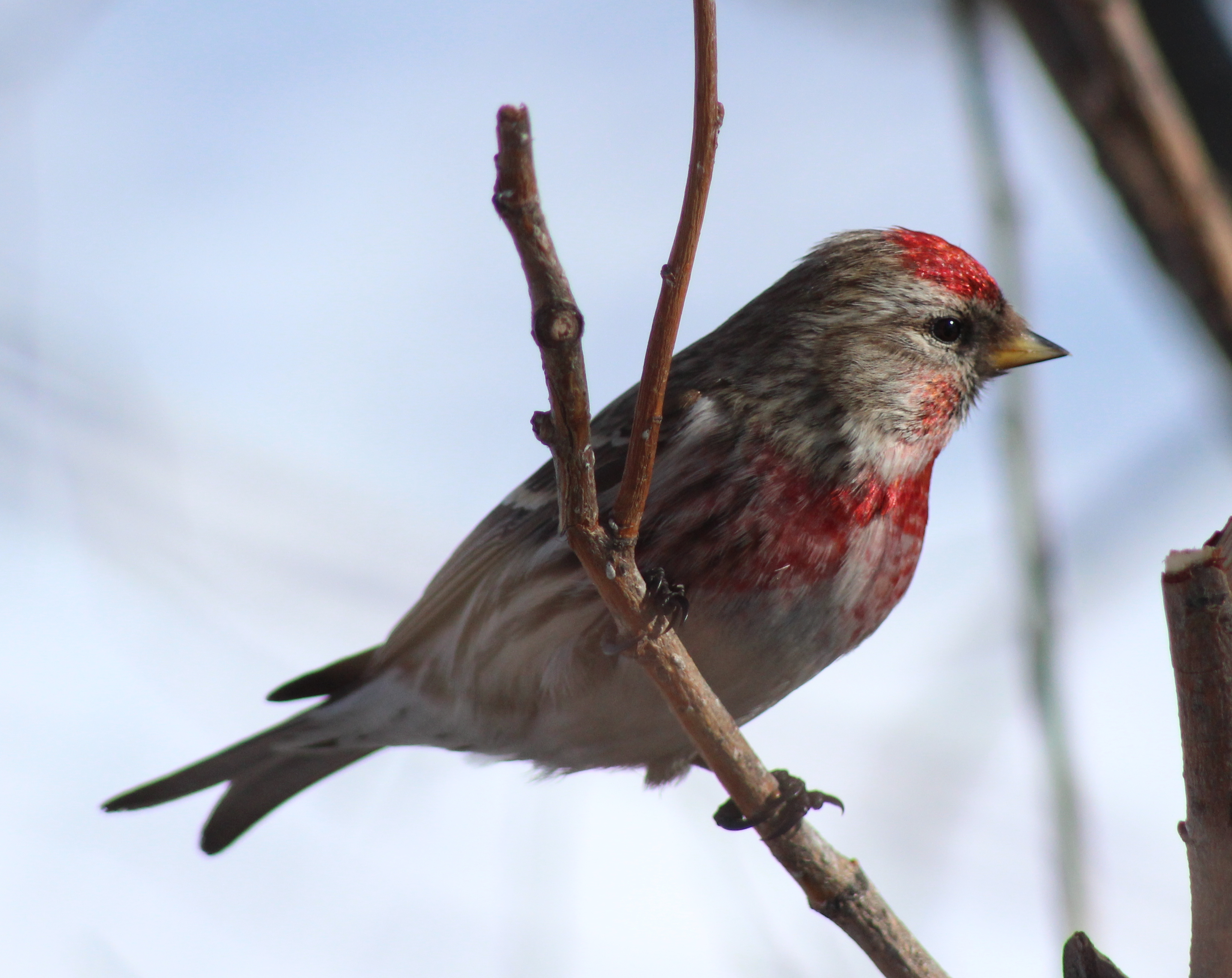 A common redpoll (Carduelis flammea) in Hollihaka park in Oulu, Finland.